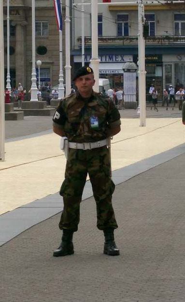 Military Police Member (Croatia)